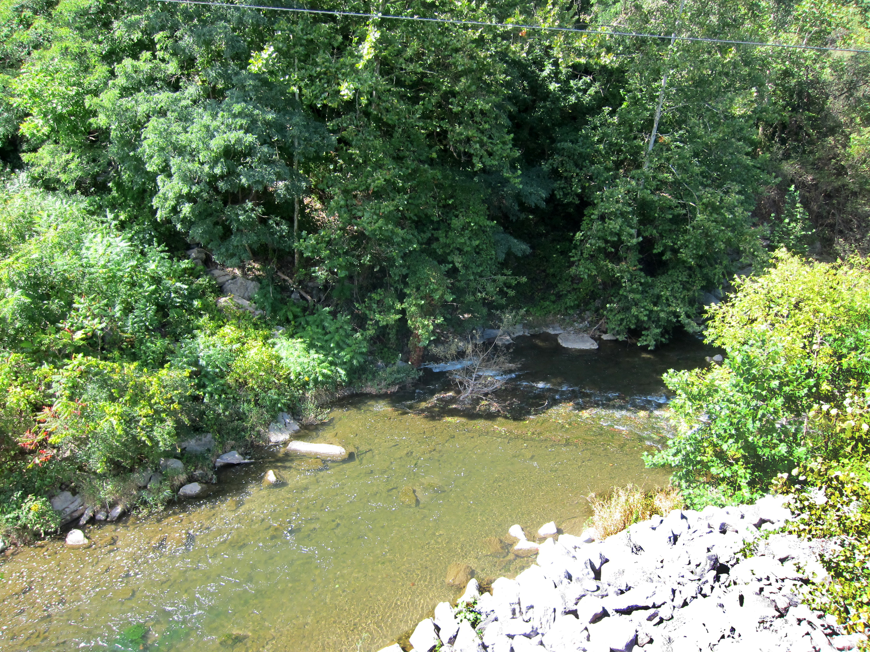 Butternut Creek at the Jamesville Rd. bridge near Jamesville and the 481, NY